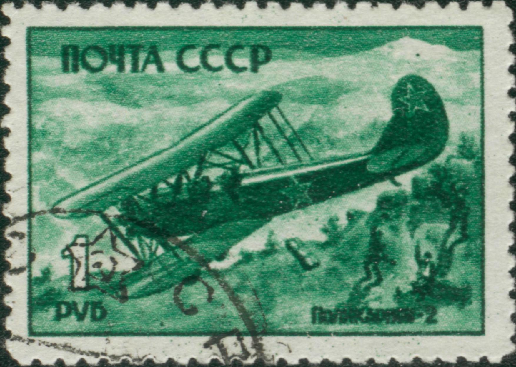 USSR stamp, Polikarpov Po-2 biplane, 1945, CPA #996, 1 ruble, used.